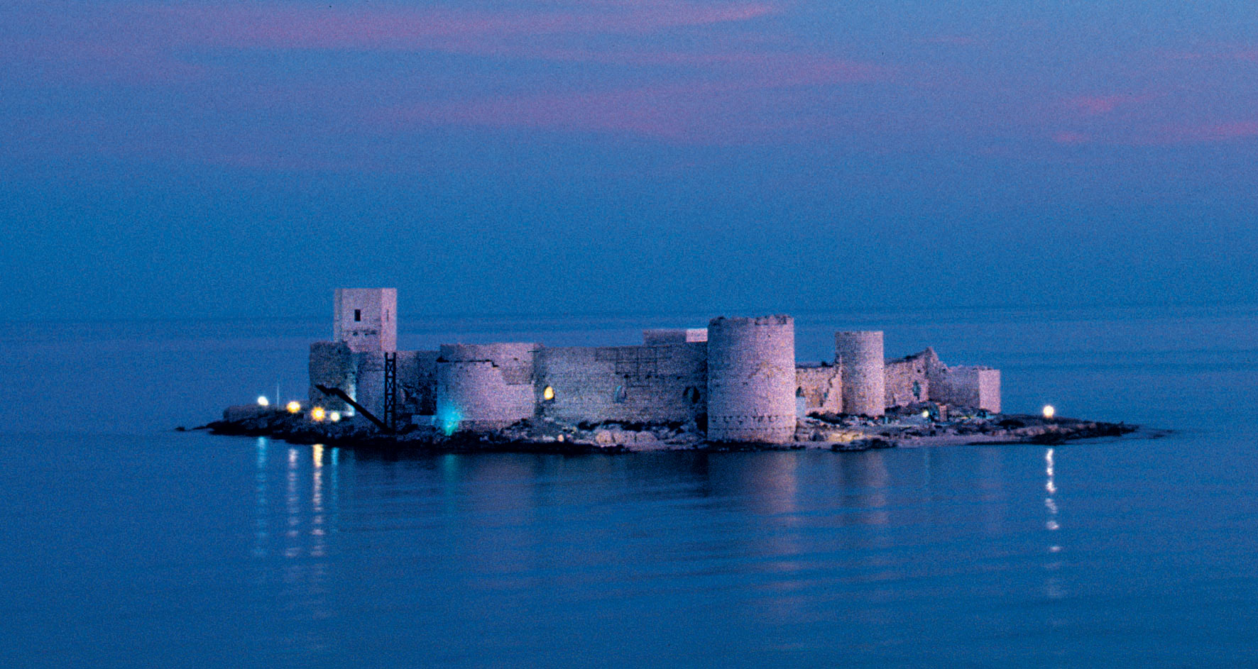 The castle is Kızkalesi, also known as the castle of Corycus in Mersin or historically Tsovaberd (Ծովաբերդ), nowdays Turkey. Source: Boris Baratov